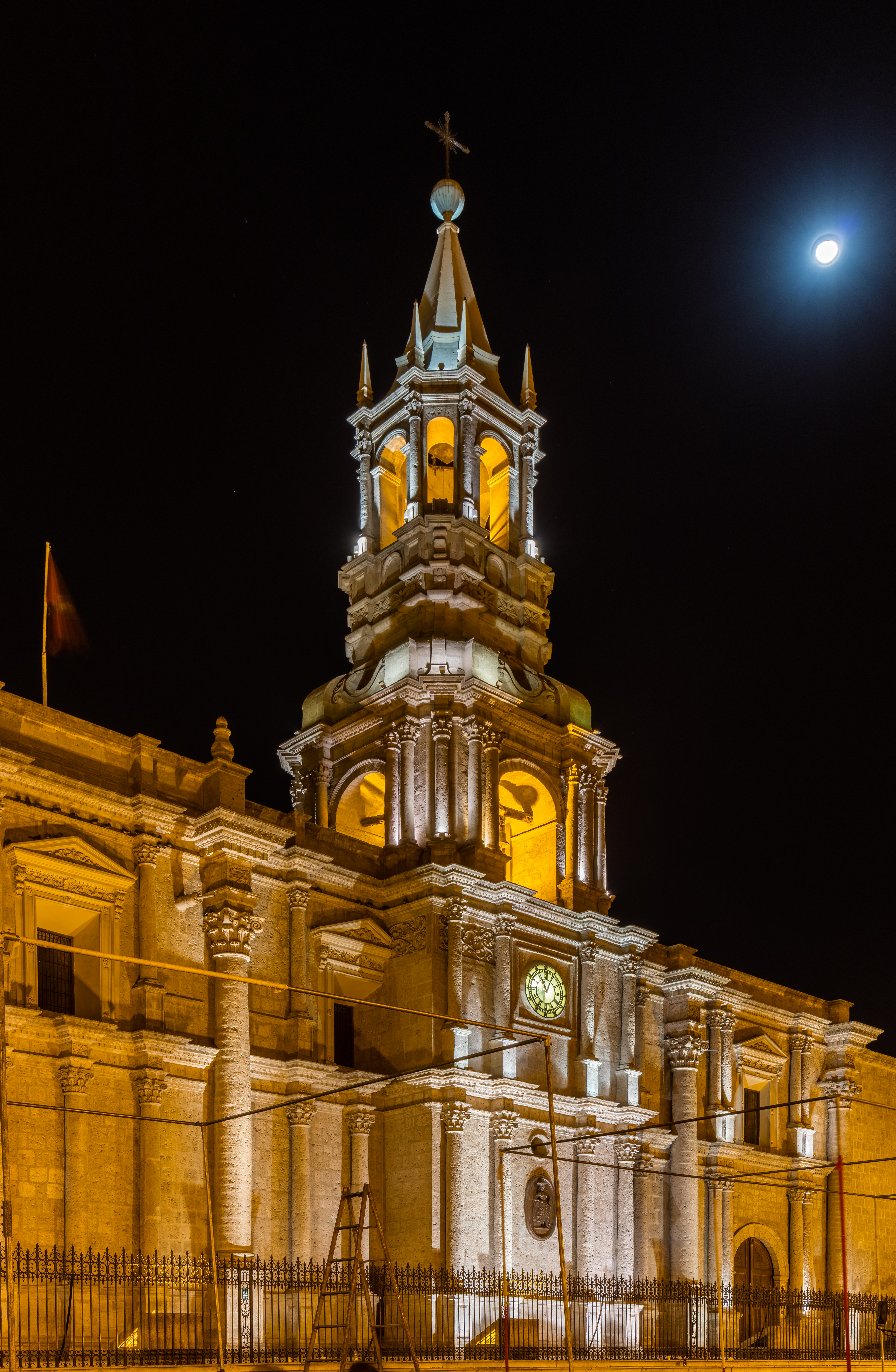 Cathedral Basilica, Arequipa, Peru